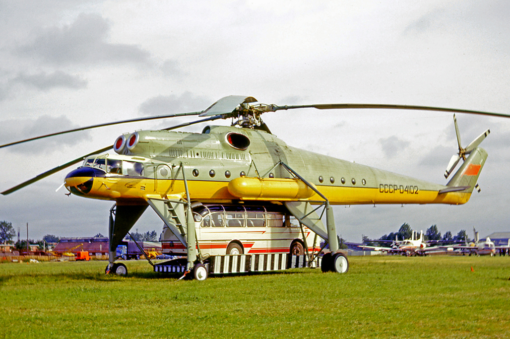 Mil Mi-10 helicopter CCCP-04102 displayed at the 1965 Paris Air Show